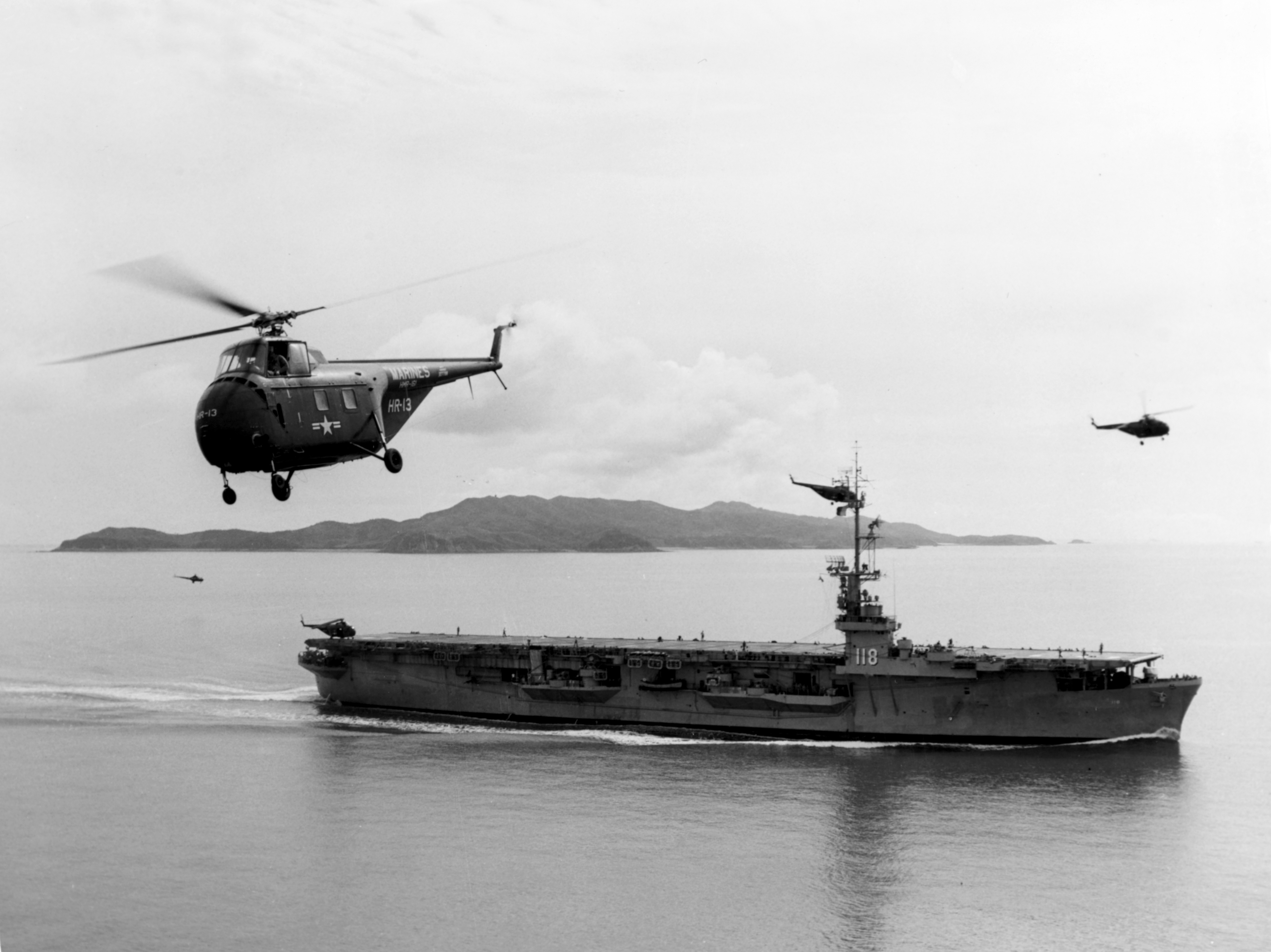 U.S. Marine Corps Sikorsky HRS-1 helicopters from Marine Helicopter Transport Squadron 161 (HMR-161) launching from the U.S. escort carrier USS Sicily (CVE-118) during "Operation Marlex-5" off the west coast of Korea in the Inchon area, on 1 September 1952. This was the first time that Marine Corps landing forces had moved from ship to shore by helicopter. The HRS-1 nearest to the camera is BuNo 127798. Sicily´s Sikorsky HO3S plane guard helicopter is visible aft of the carrier.